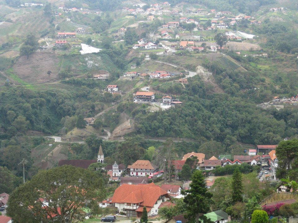 Casitas coloniales de la colonia tovar